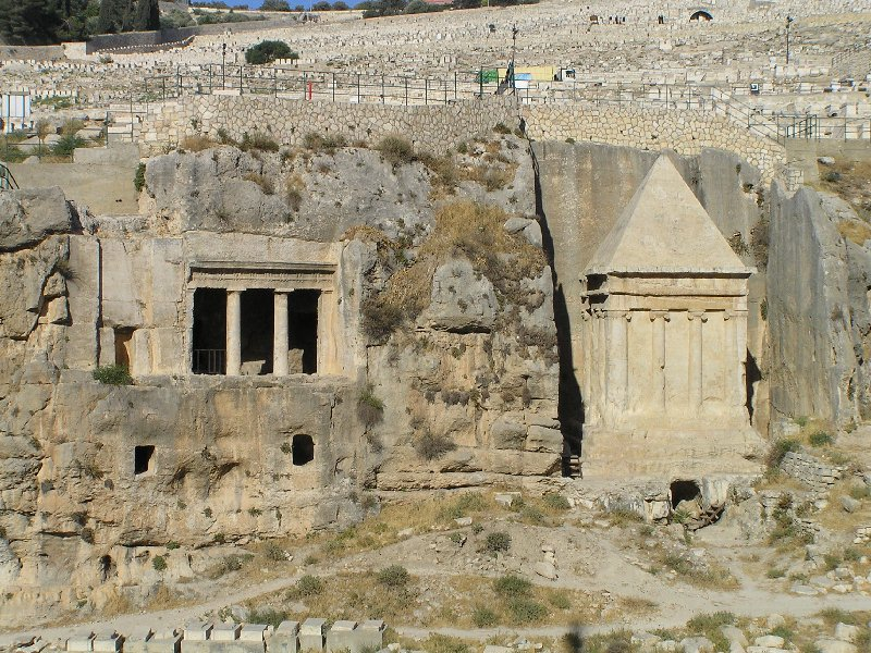 Tombs of Zkaria and of Hezir family, on Mt. Olives slopes, Jerusalem Photographed by Eman on June 2005